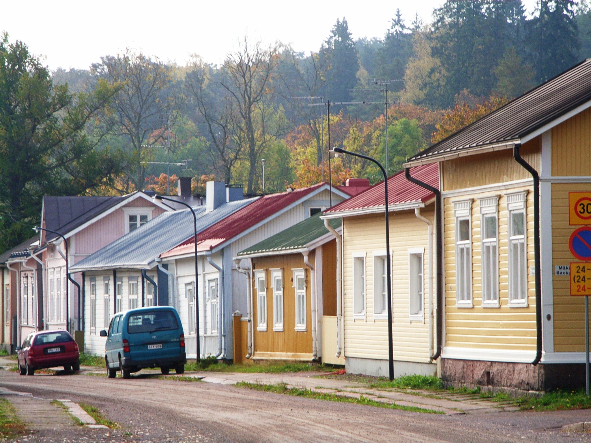 Loviisa, Finland. Street with typical wooden houses.